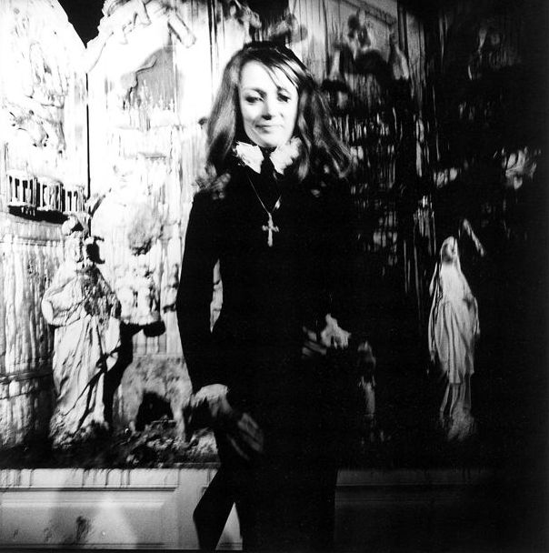 Portray of Niki de Saint Phalle by Lothar Wolleh. Niki de Saint Phalle, born Catherine-Marie-Agnès Fal de Saint Phalle (29 October 1930–21 May 2002) was a French sculptor, painter, and film maker.